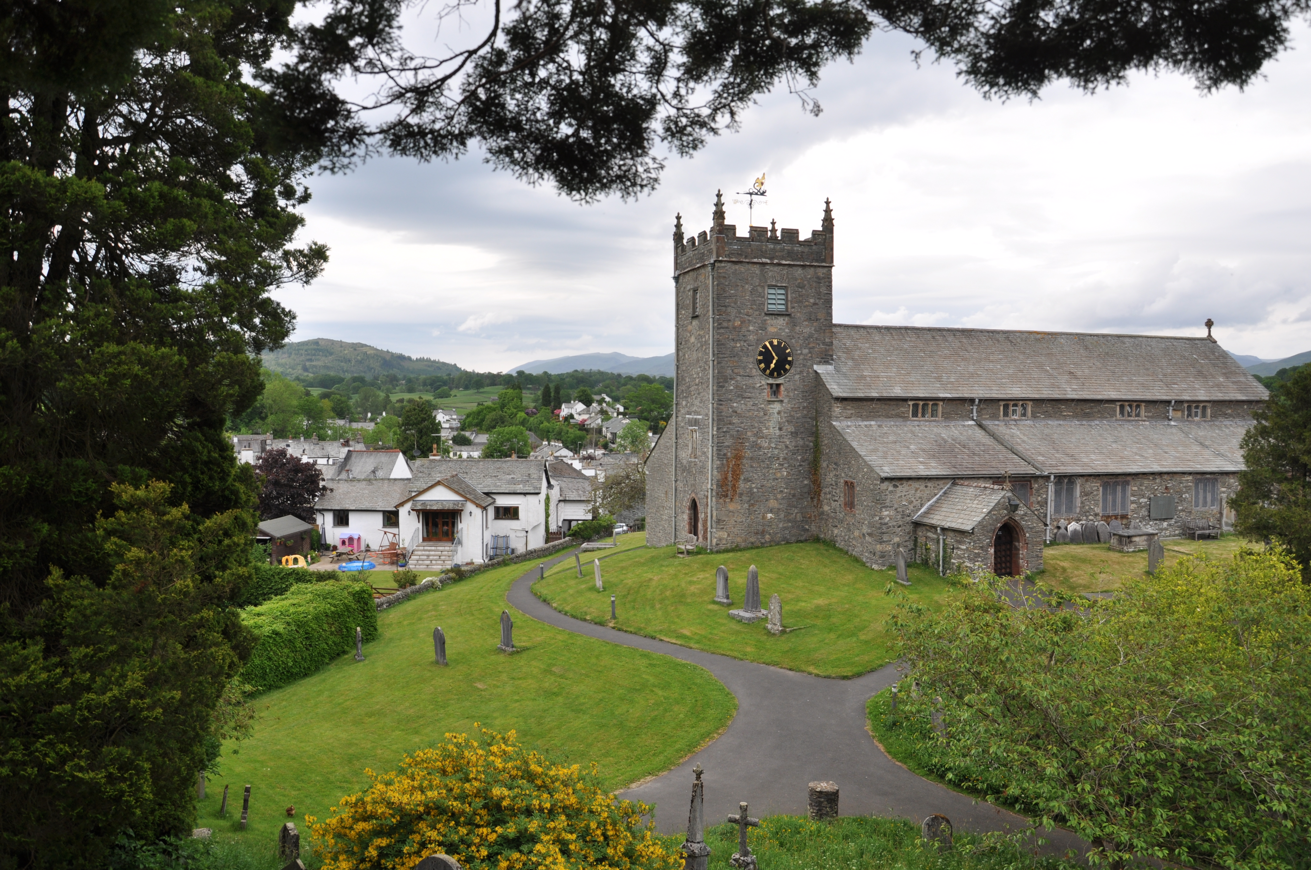 Founded in the 12th century, it is a fine example of an English rural parish church.